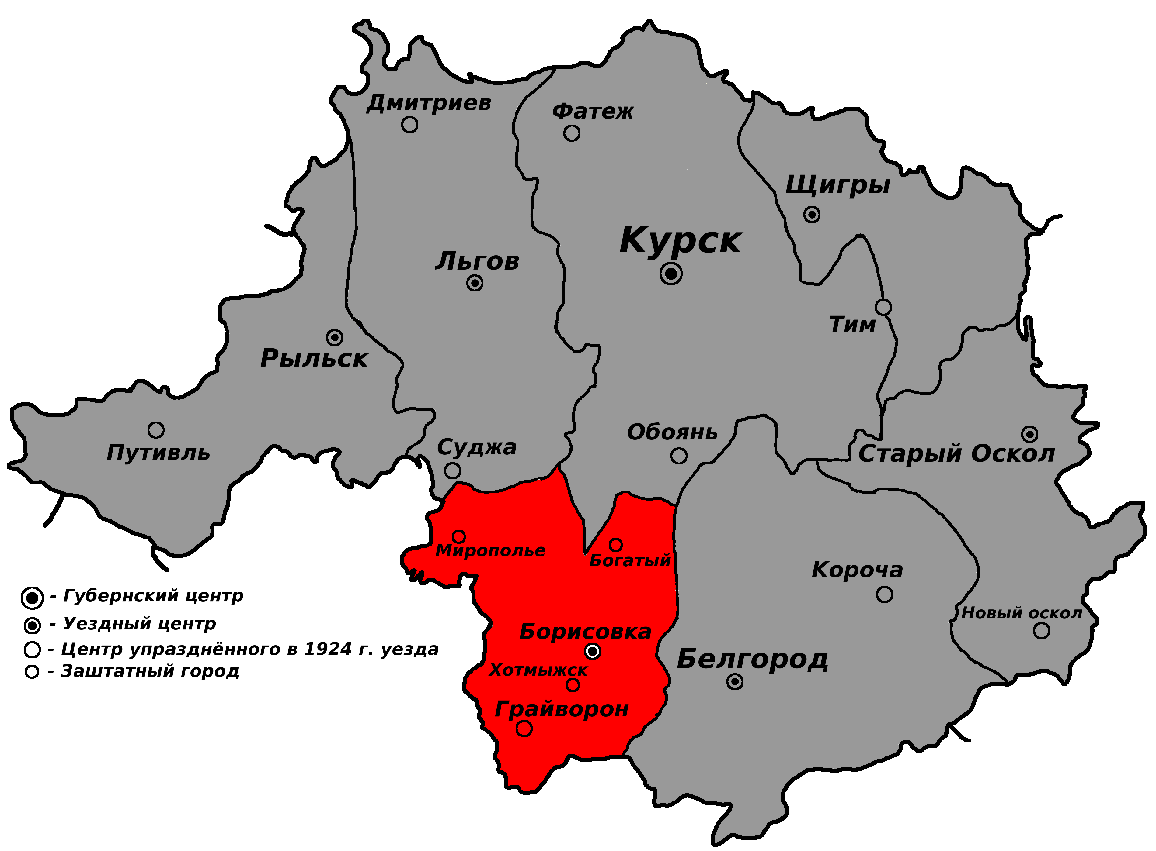 Kursk gubernia (RSFSR), Borisovsky_uyezd